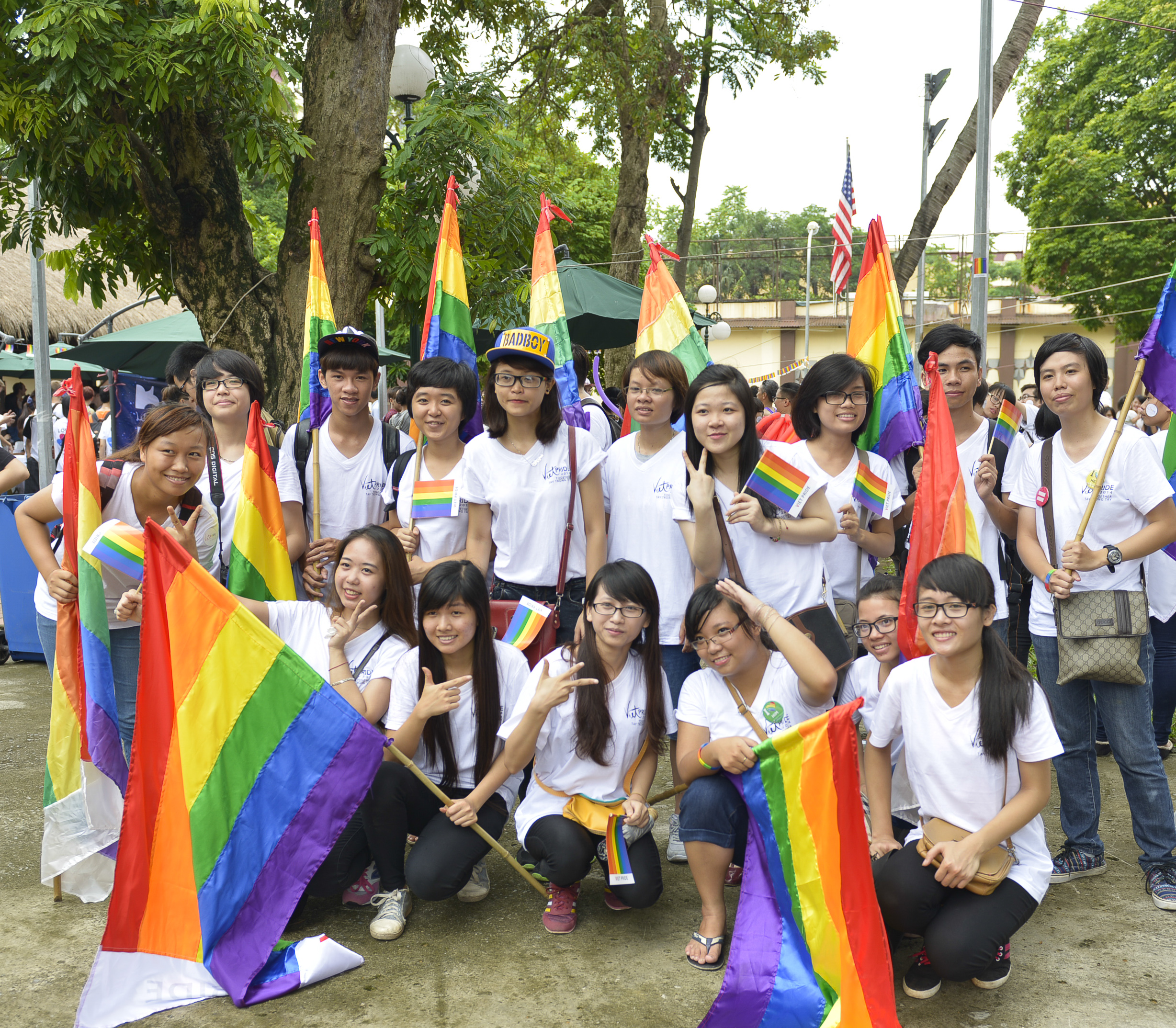 American Club, Hanoi. August 3, 2014. Photo: USAID/Vietnam